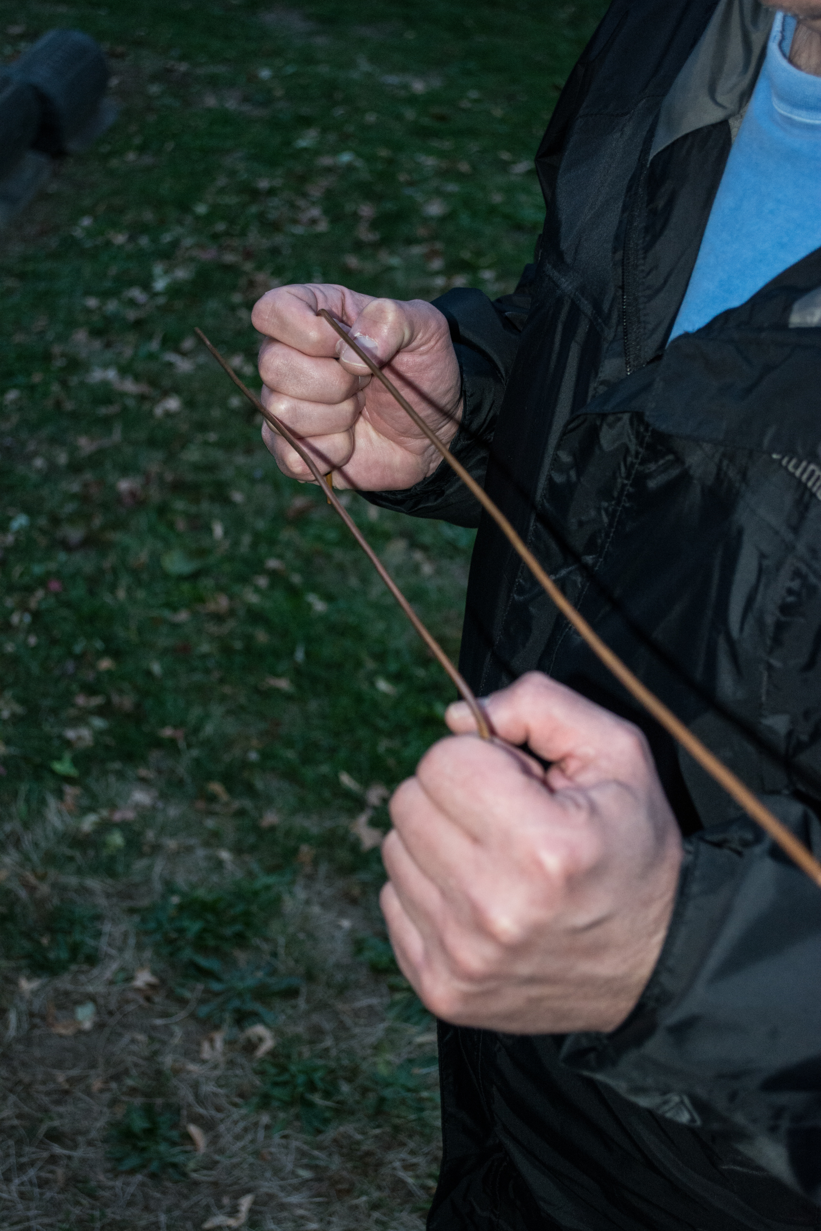 ghost dowsing rods - Riverside Cemetery